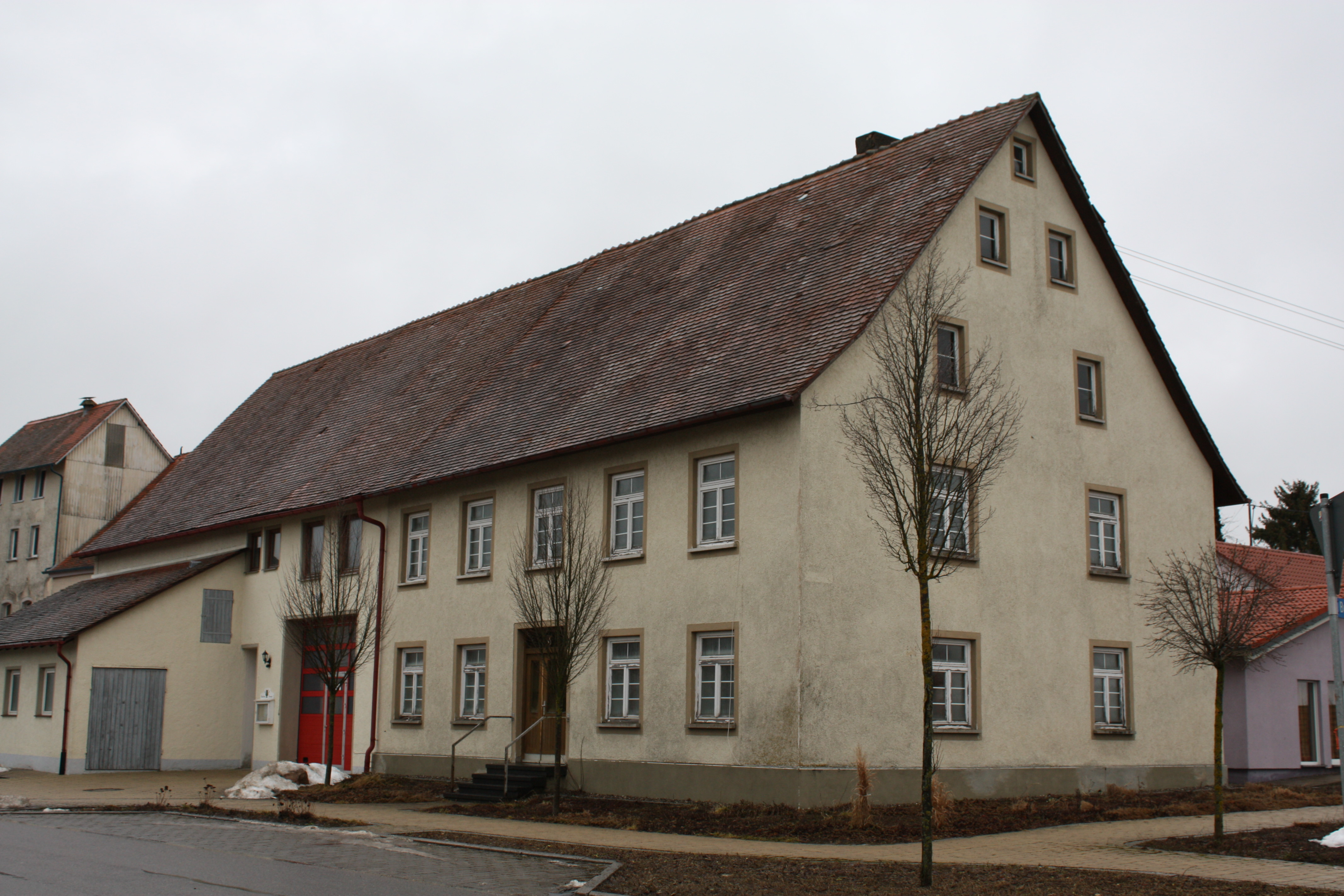 Gewandhaus before its renovation